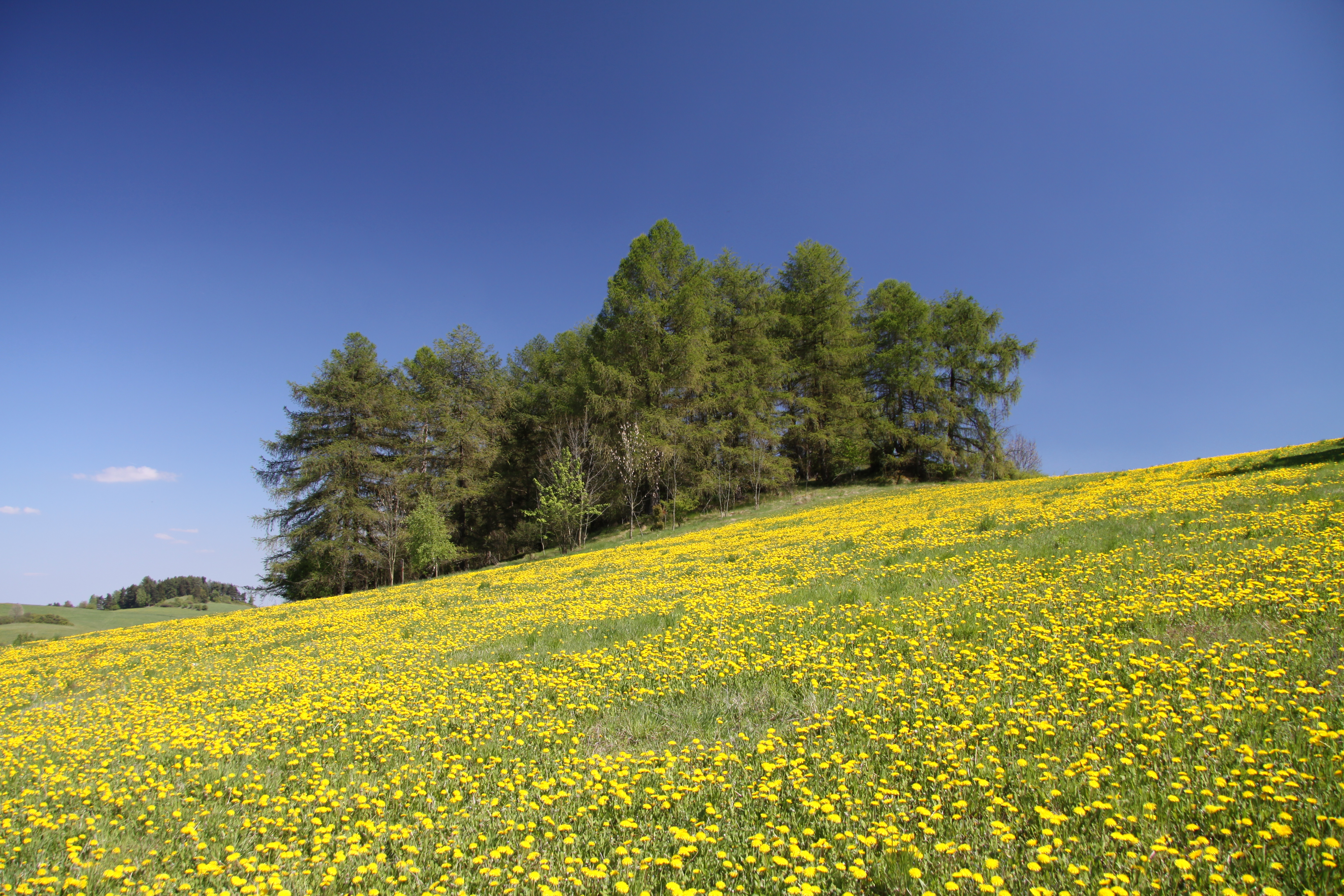 Natural monument Háje near Onšovice village in Prachatice District, Czech Republic.